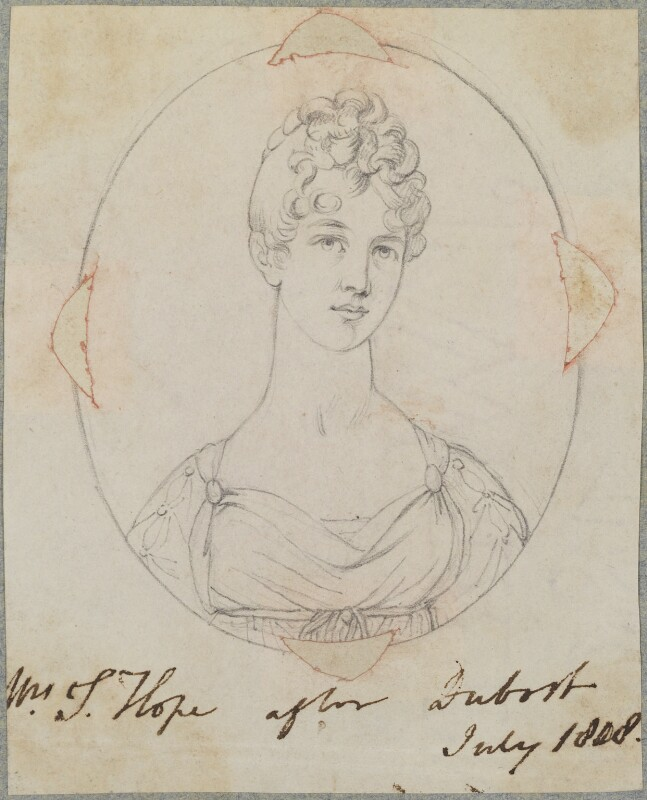 Portrait of Louisa Hope, pencil, pen and ink (111 x 90 mm), acquired Sir George Scharf, 1890 (ref. NPG : D17612).